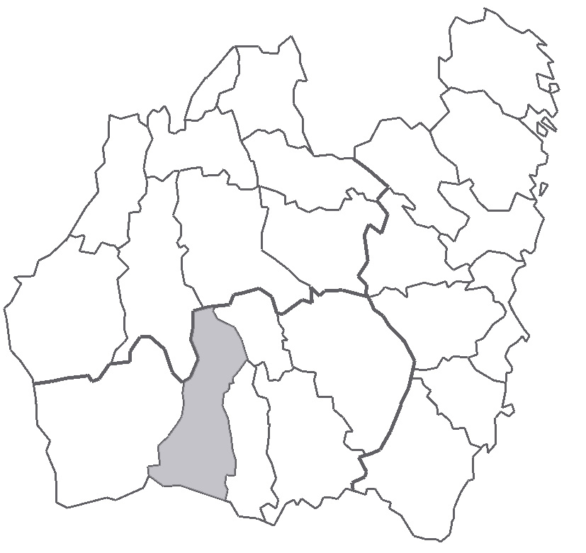 Map describing the location of Allbo Hundred in the province of Småland, Sweden.